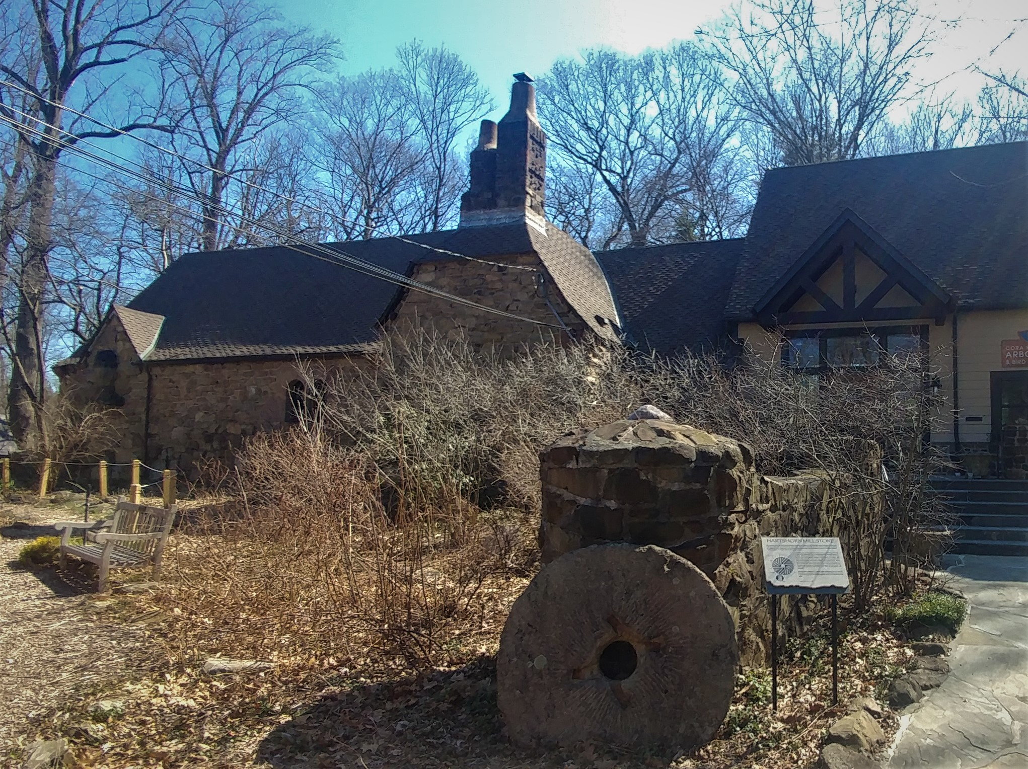 Cora Hartshorn Arboretum House and Museum, Short Hills, New Jersey